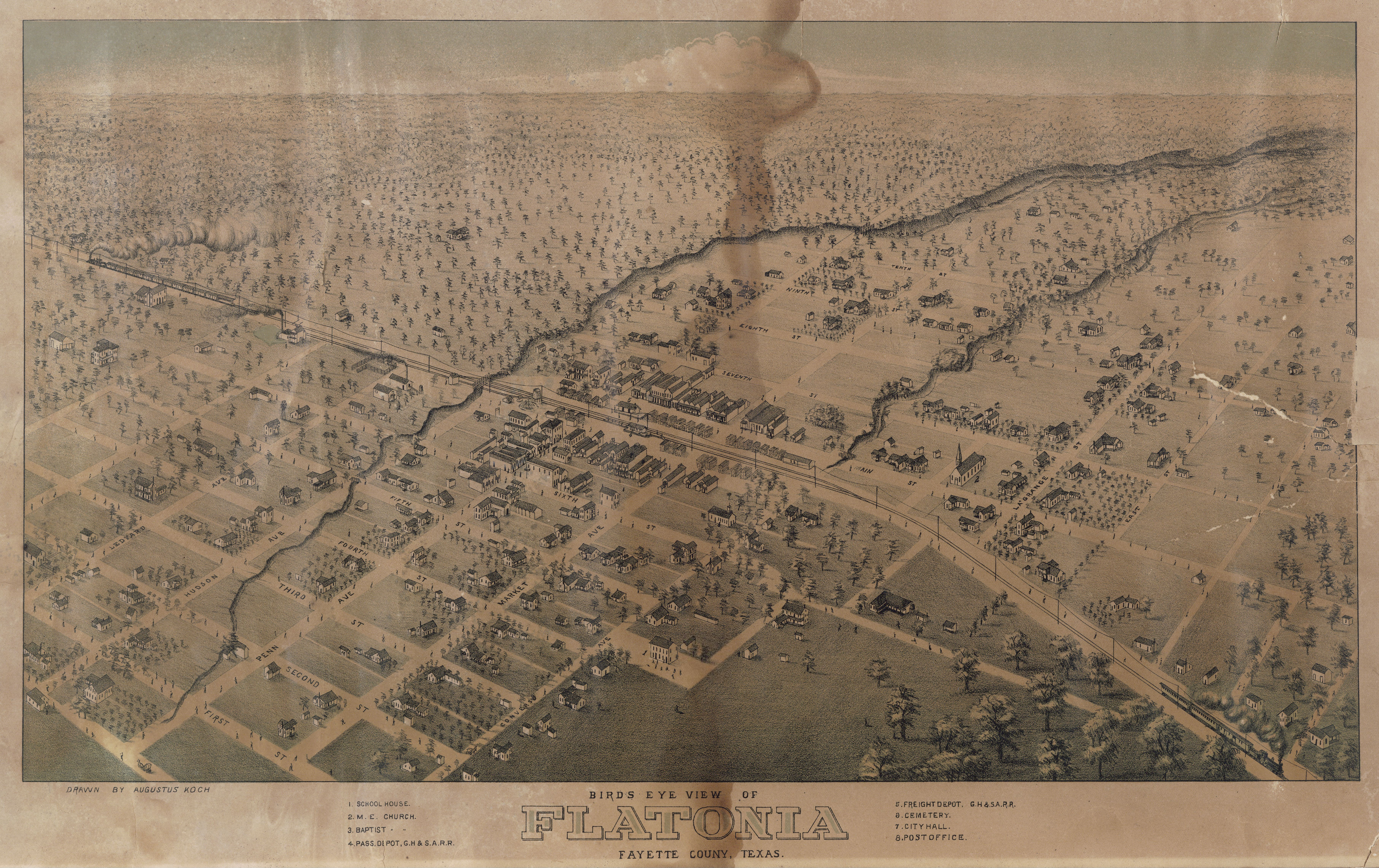 Bird’s Eye View of Flatonia, Fayette County, Texas, 1881. Toned lithograph, 13.9 x 21.9 in. Courtesy E. A. Arnim Archives and Museum, Flatonia.